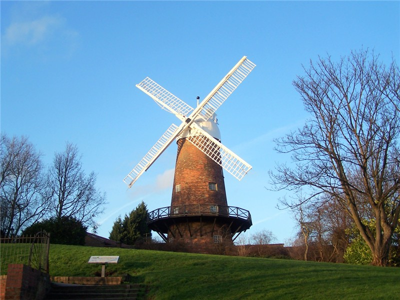 Green's windmill taken by kev747